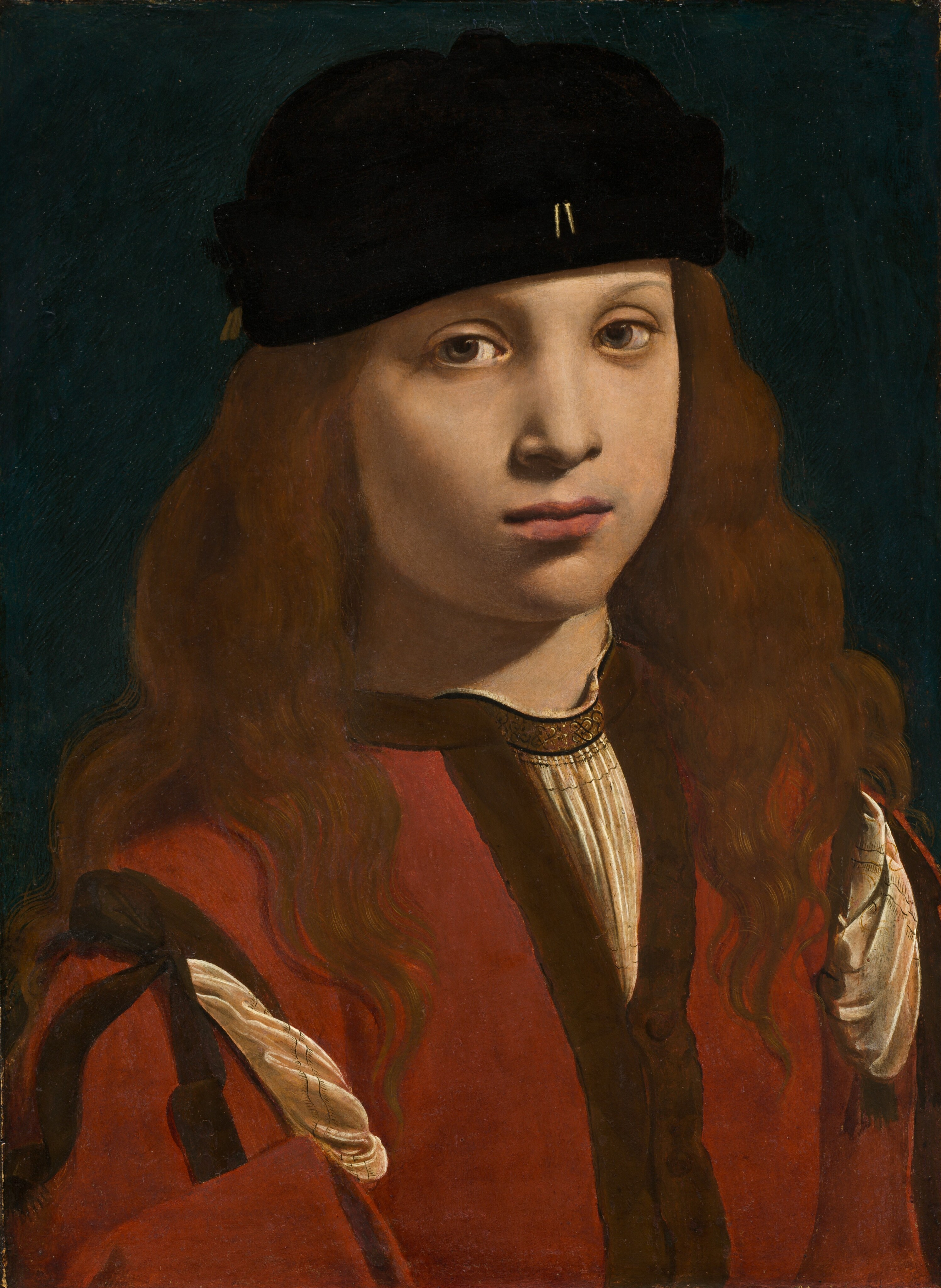 Possibly Portrait of Francesco Sforza, count of Pavia